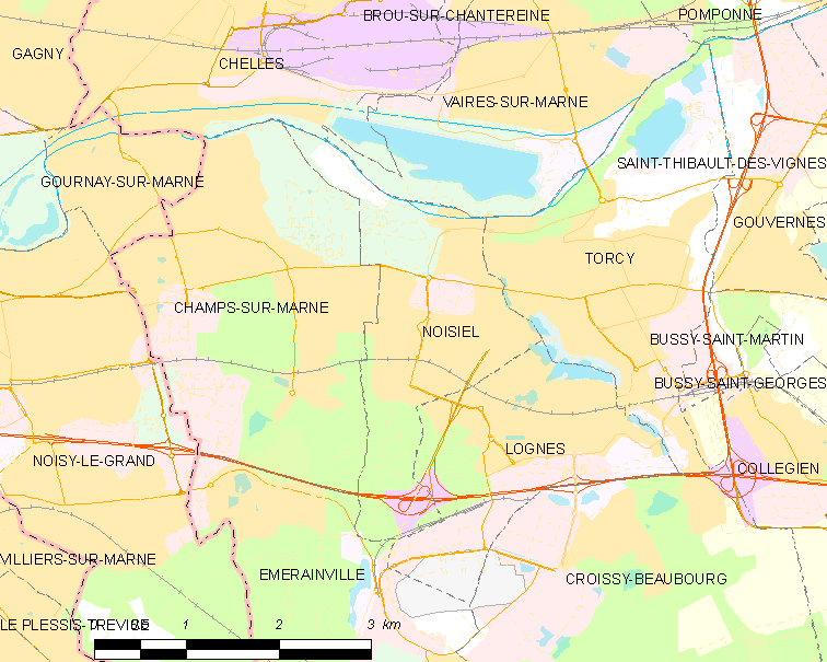 Map of French municipality Noisiel